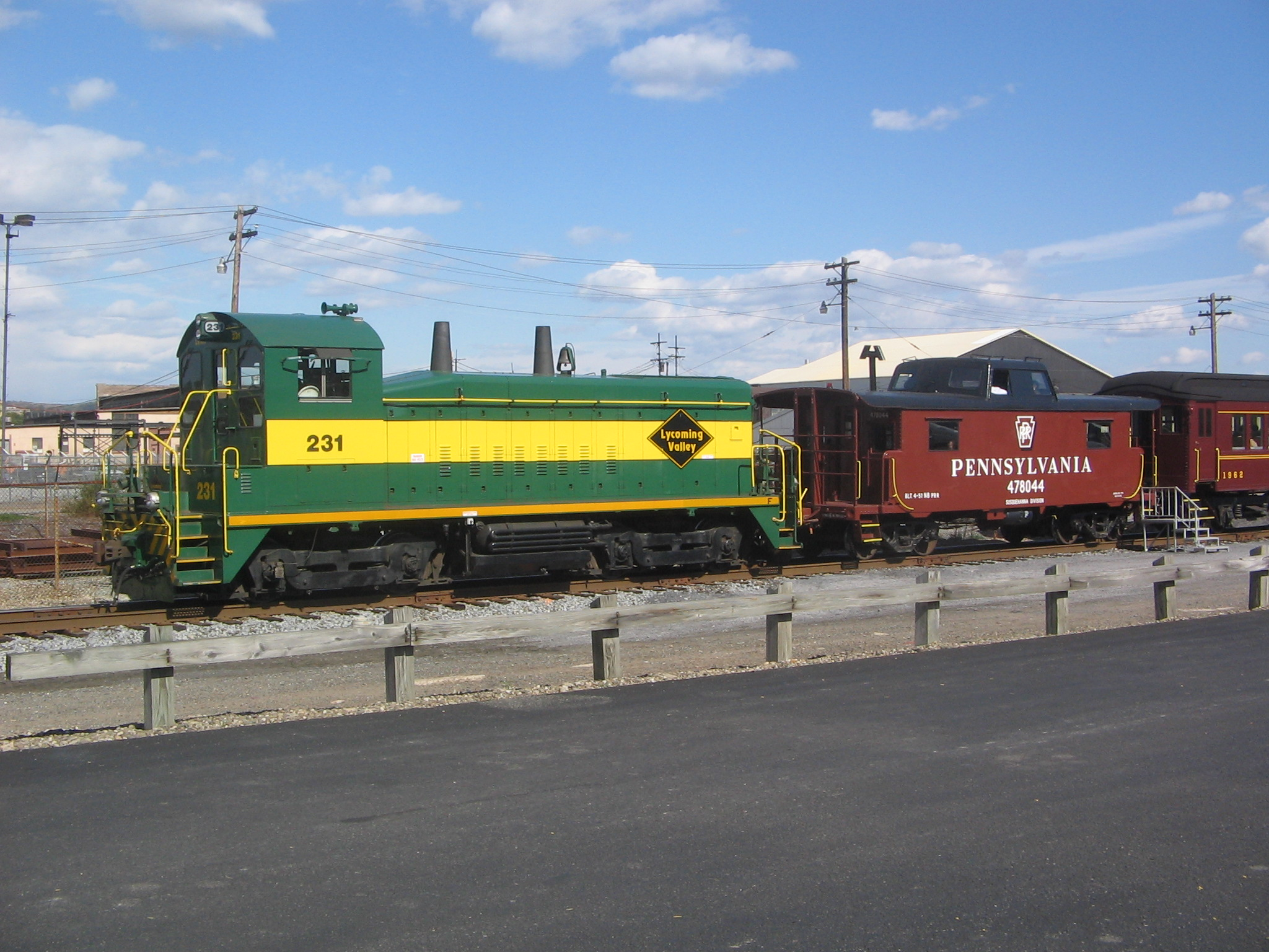 Lycoming Valley Railroad Engine 231 with a restored Pennsylvania Railroad caboose, at the start of a flaming fall foliage excursion in Williamsport, Lycoming County, Pennsylvania, USA.